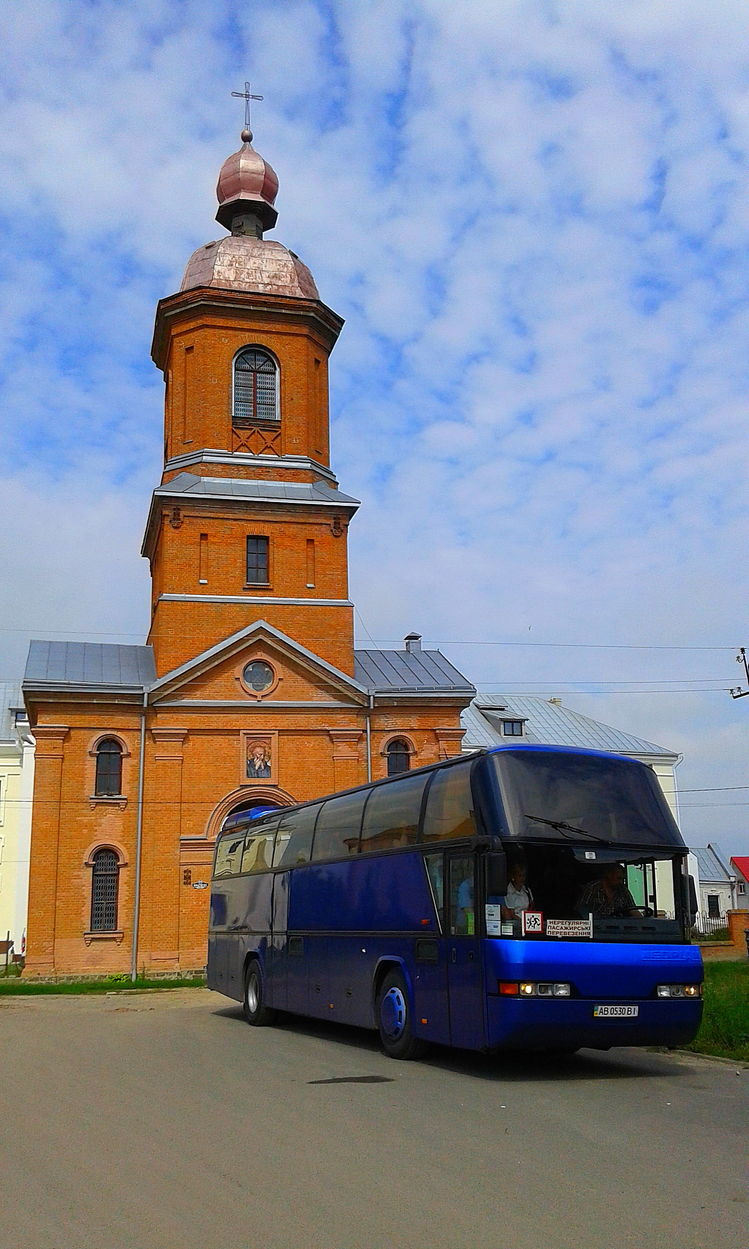 OLD BELL TOWER AT ST POKROVSKY MONASTERY CITY OF BAR REGION OF VINNYTSIA STATE OF UKRAINE PHOTOGRAPH BY VIKTOR O LEDENYOV 20180725